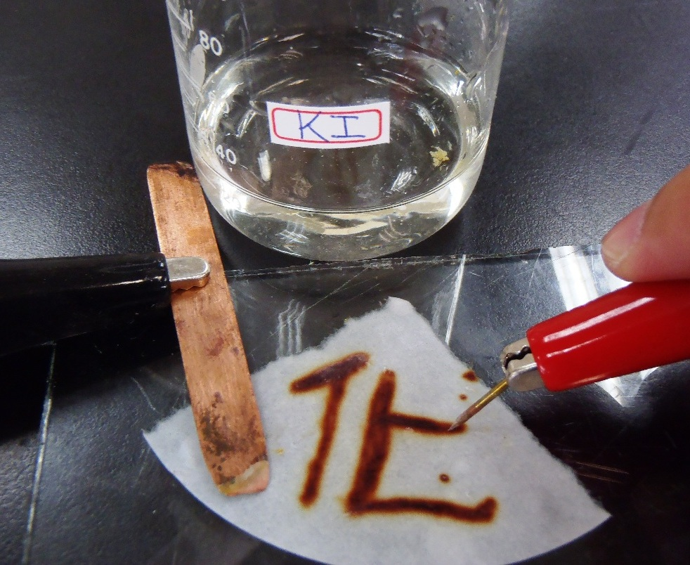 electrolysis1